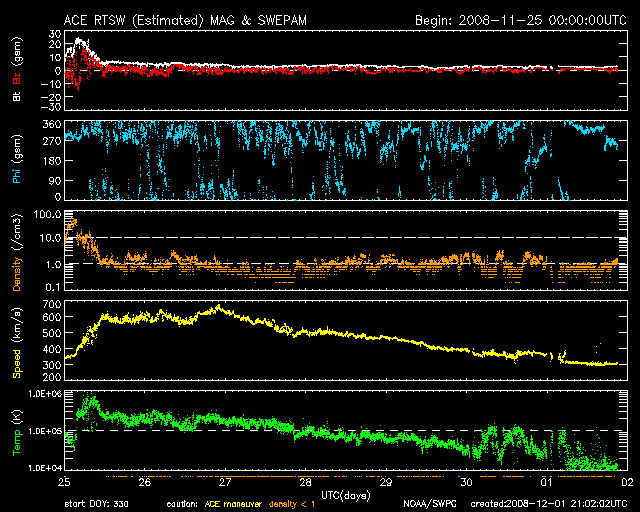 One week of interplanetary magnetic field and solar wind data from the MAG and SWEPAM instruments on the NASA solar wind monitor ACE (Advanced Composition Explorer). Panels from top to bottom: 1: Magnitude (white) and northward (in an ecliptical system) component (red) of the interplanetary magnetic field, in nanotesla. 2: Magnetic field direction as seen from the sun. 0 degrees is northward (in an ecliptical sense), 270 degrees in the direction of Earth's orbital motion around the sun. 3: Solar wind number density, i.e. number of protons per cubic centimeter. 4: Solar wind radial flow speed in kilometers per second. 5: Bottom panel: Solar wind proton temperature in kelvin.